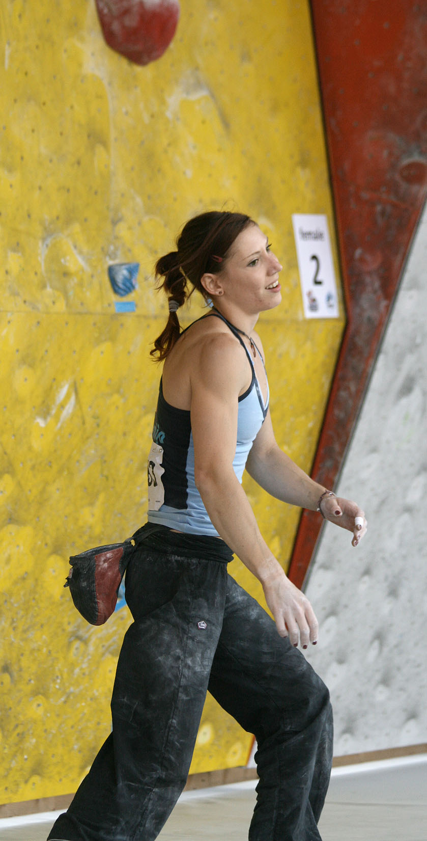 Mina Markovič during the semi-finals at the IFSC Boulder Worldcup Vienna 2010.